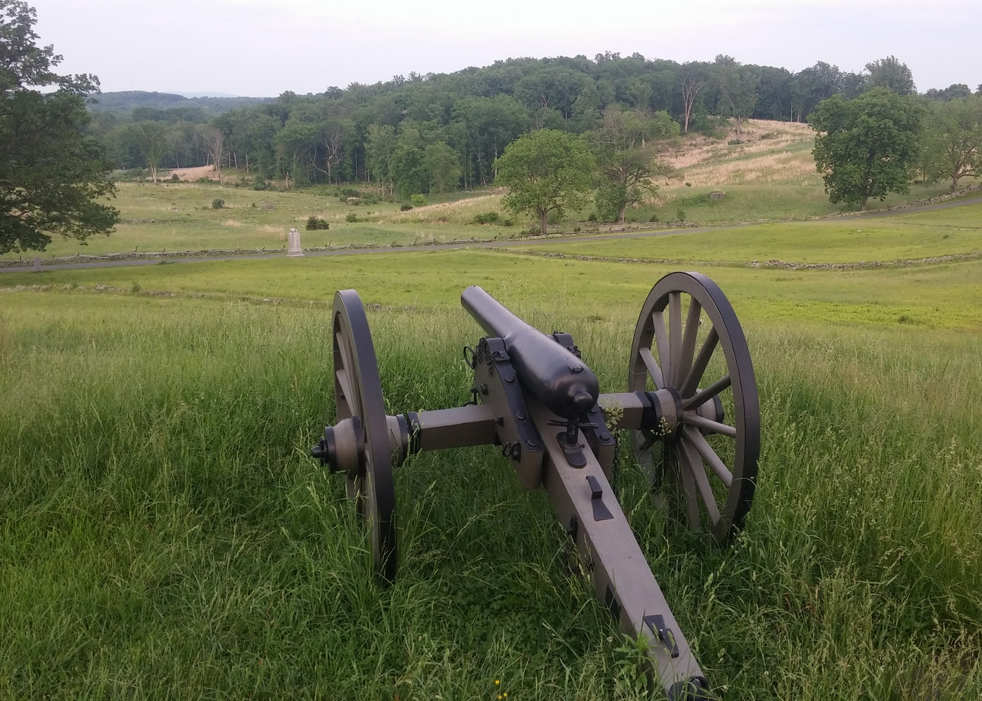 Gettysburg, Culps Hill from the Cemetery Hill.